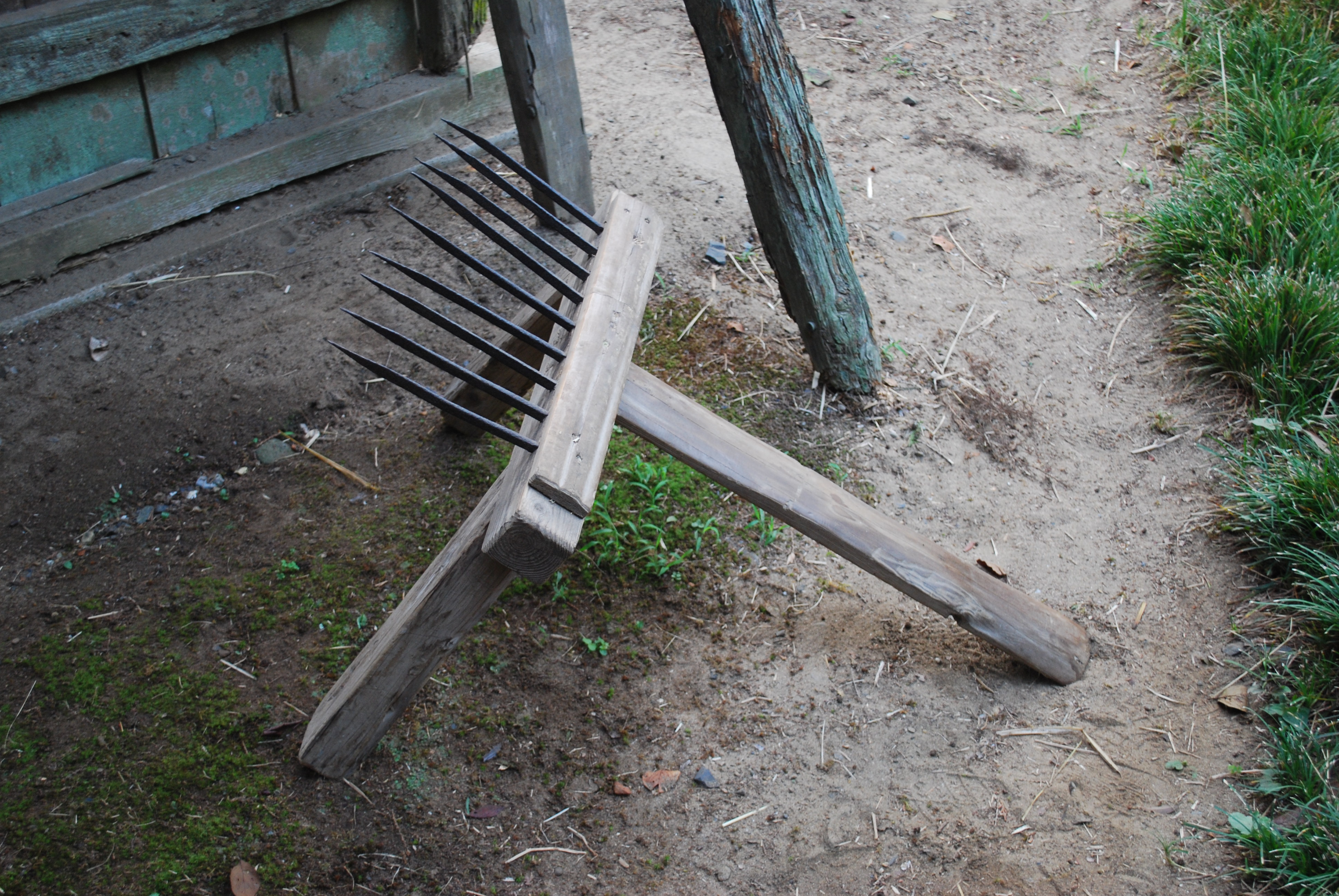 Japanese old threshing tool, Senba-koki, Katori-city, Japan